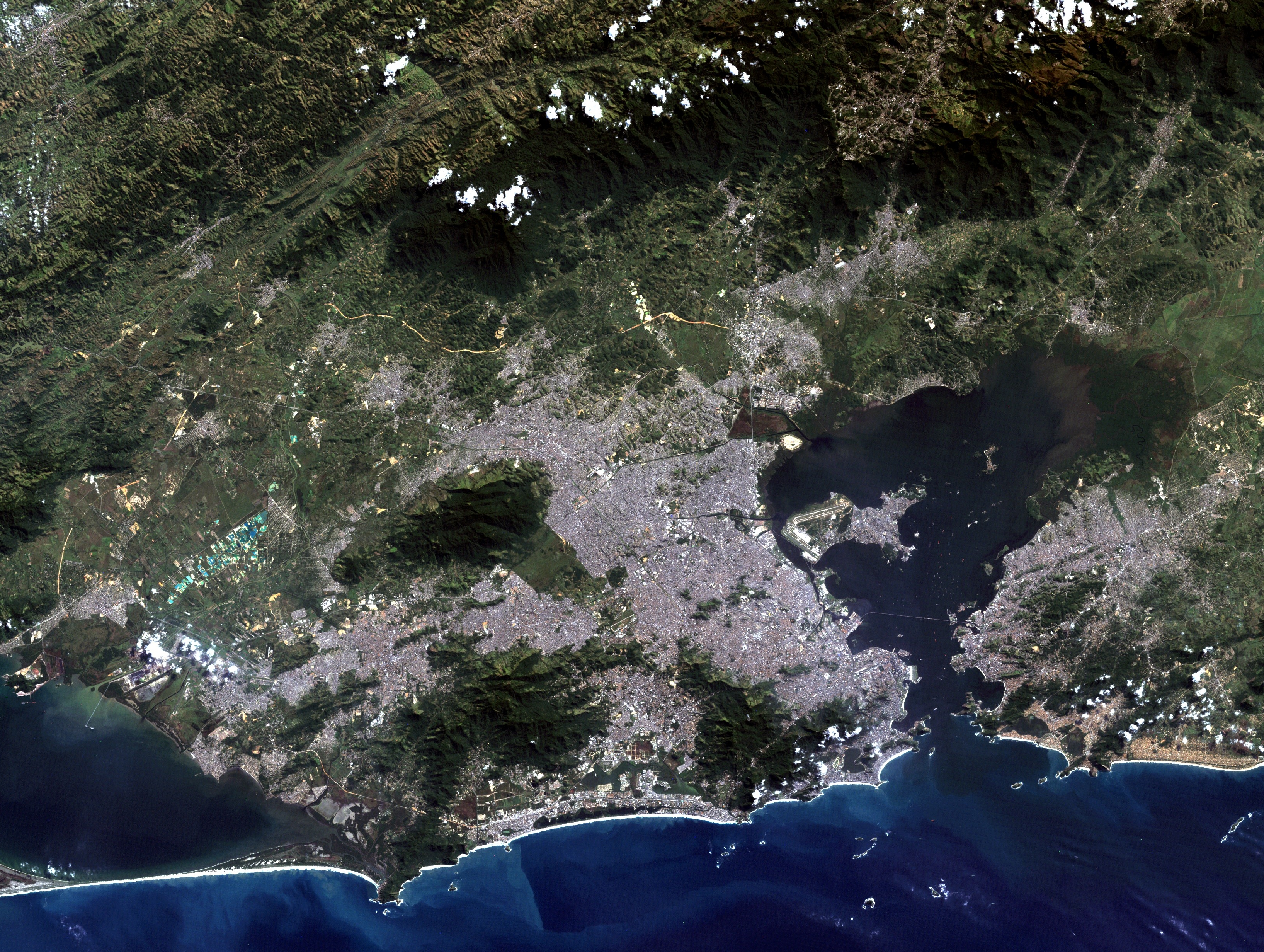 Rio de Janeiro, satellite image, LandSat-5, 2011-05-09, near natural colors, resolution 30 m